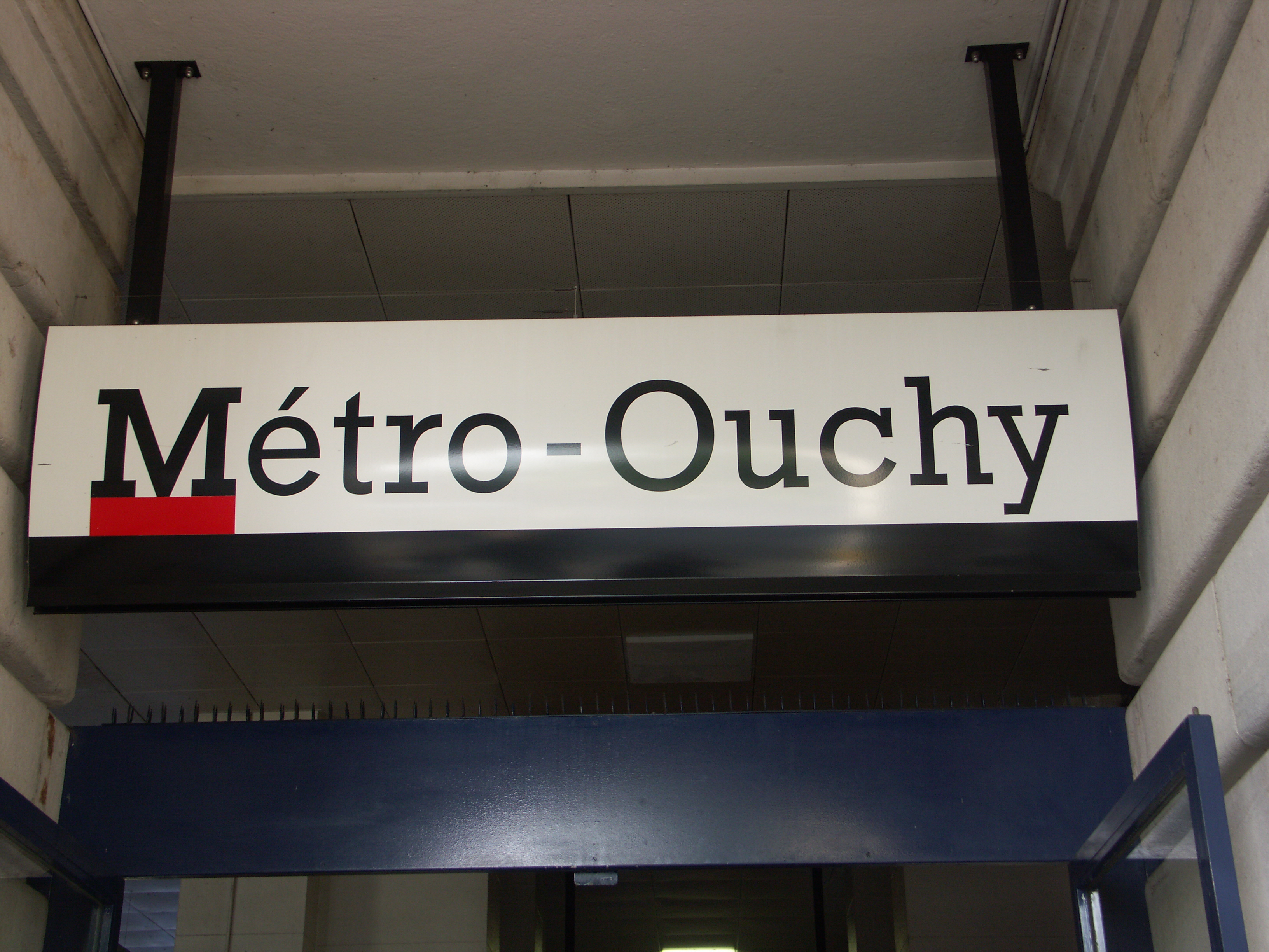 Ouchy